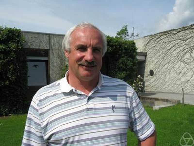 Alexander Merkurjev, Oberwolfach 2009